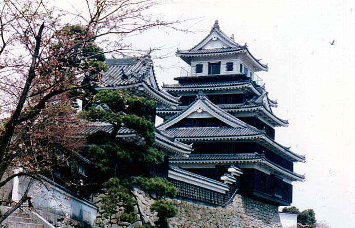 photo of Nakatsu Castle the rebuilt keep.This castle is in Nakatsu, Oita, Japan. It had been the government office of Nakatsu Clan (Nakatsu Han) during the Edo period.